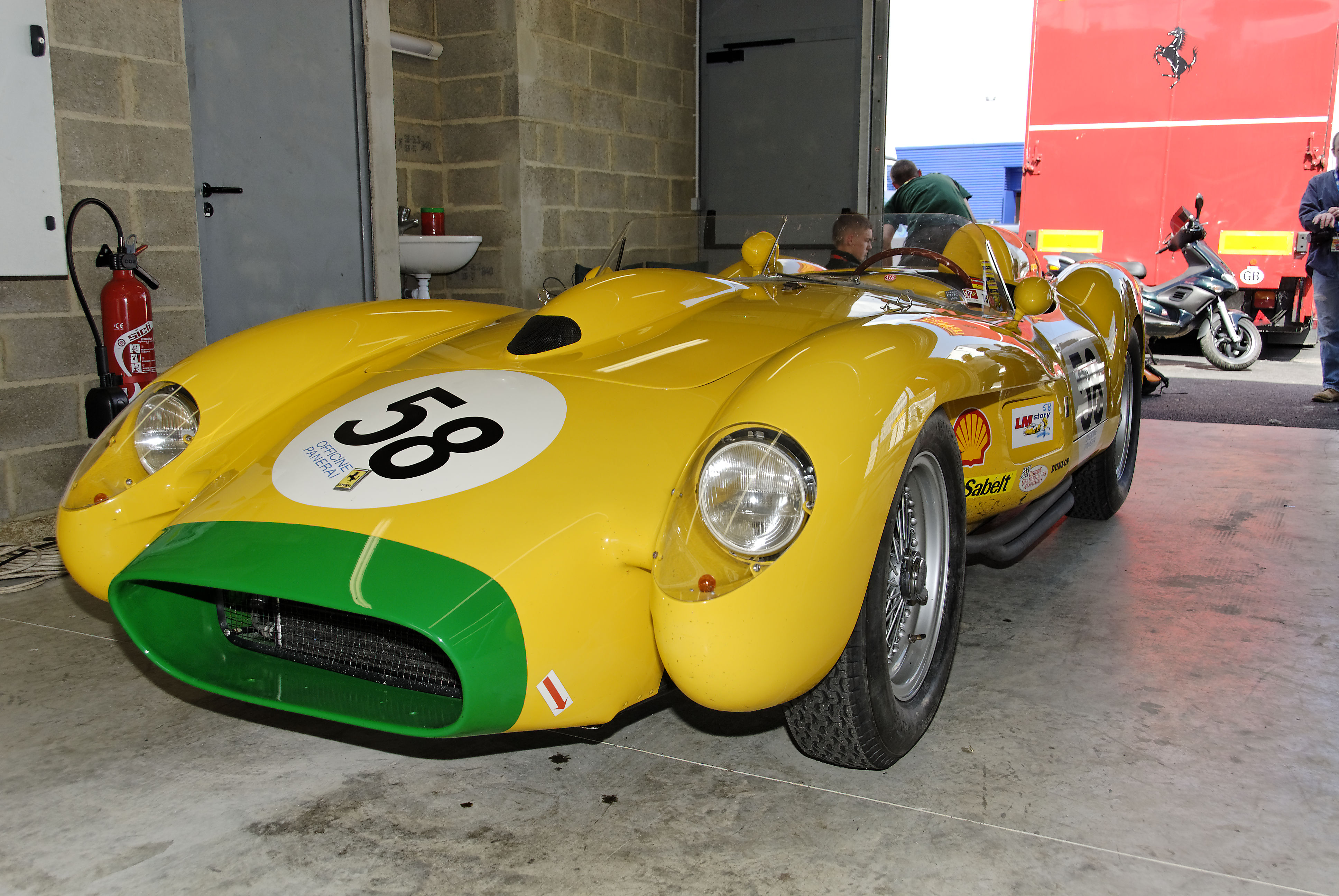 1958 Ferrari 250 Testa Rossa s/n 0738TR– at LM Story at Bugatti Circuit in Le Mans on 6 July 2007